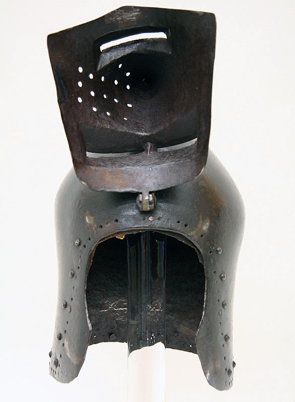 probably German; Helmet (Basinet) with detachable visor; Helmets